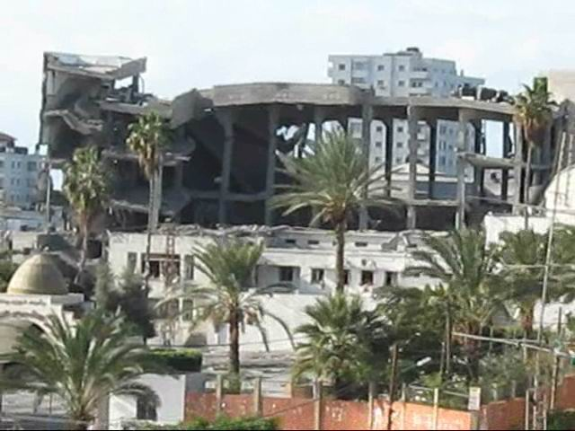 Gaza, Legislative Council, January 5th 2009